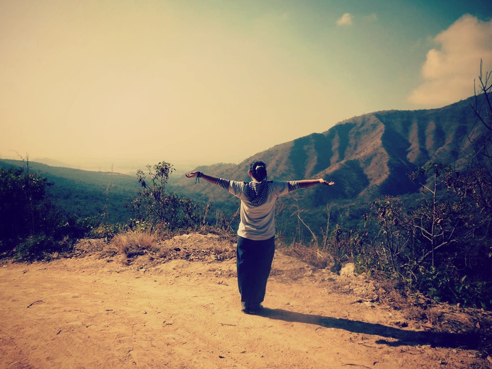 hermosas montañas venezolanas